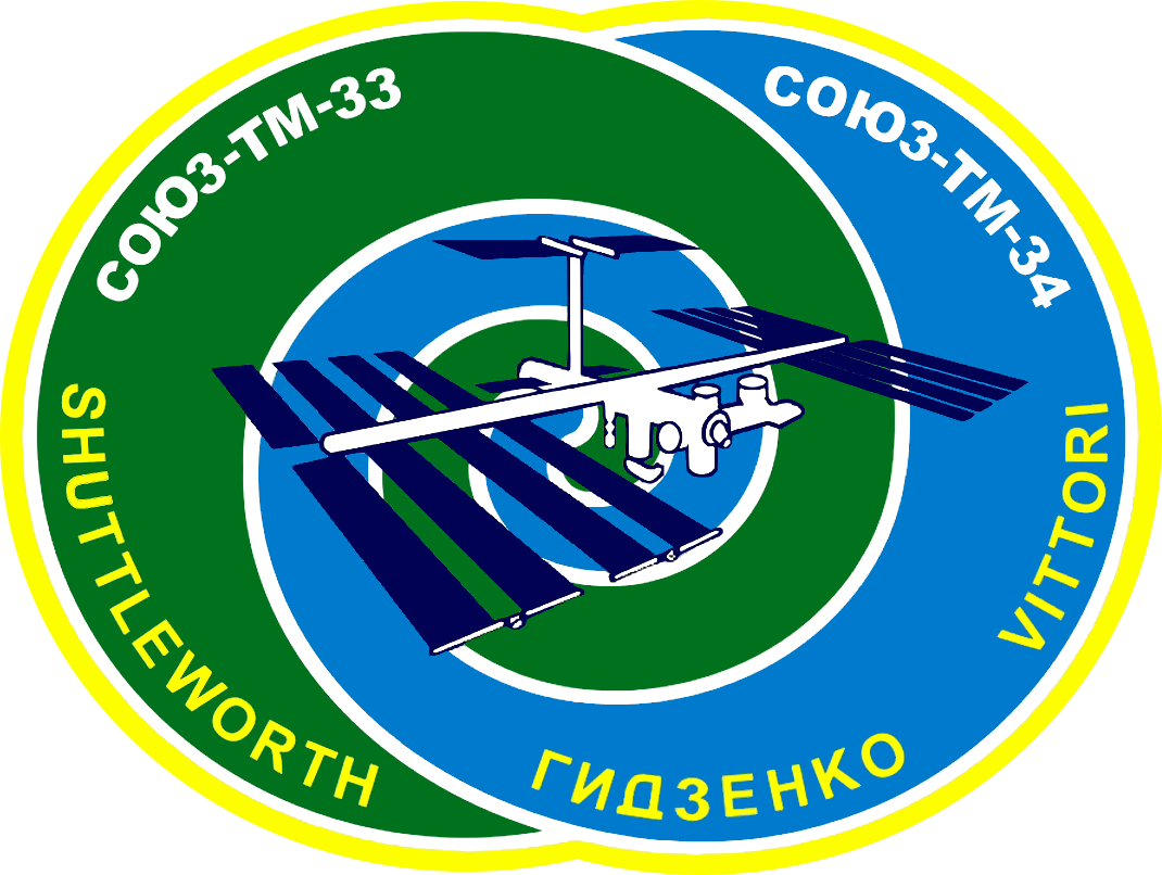 Insignia for the Soyuz TM-34 mission to the International Space Station. In this version: Converted to PNG format, background removed, and other minor optimizations.